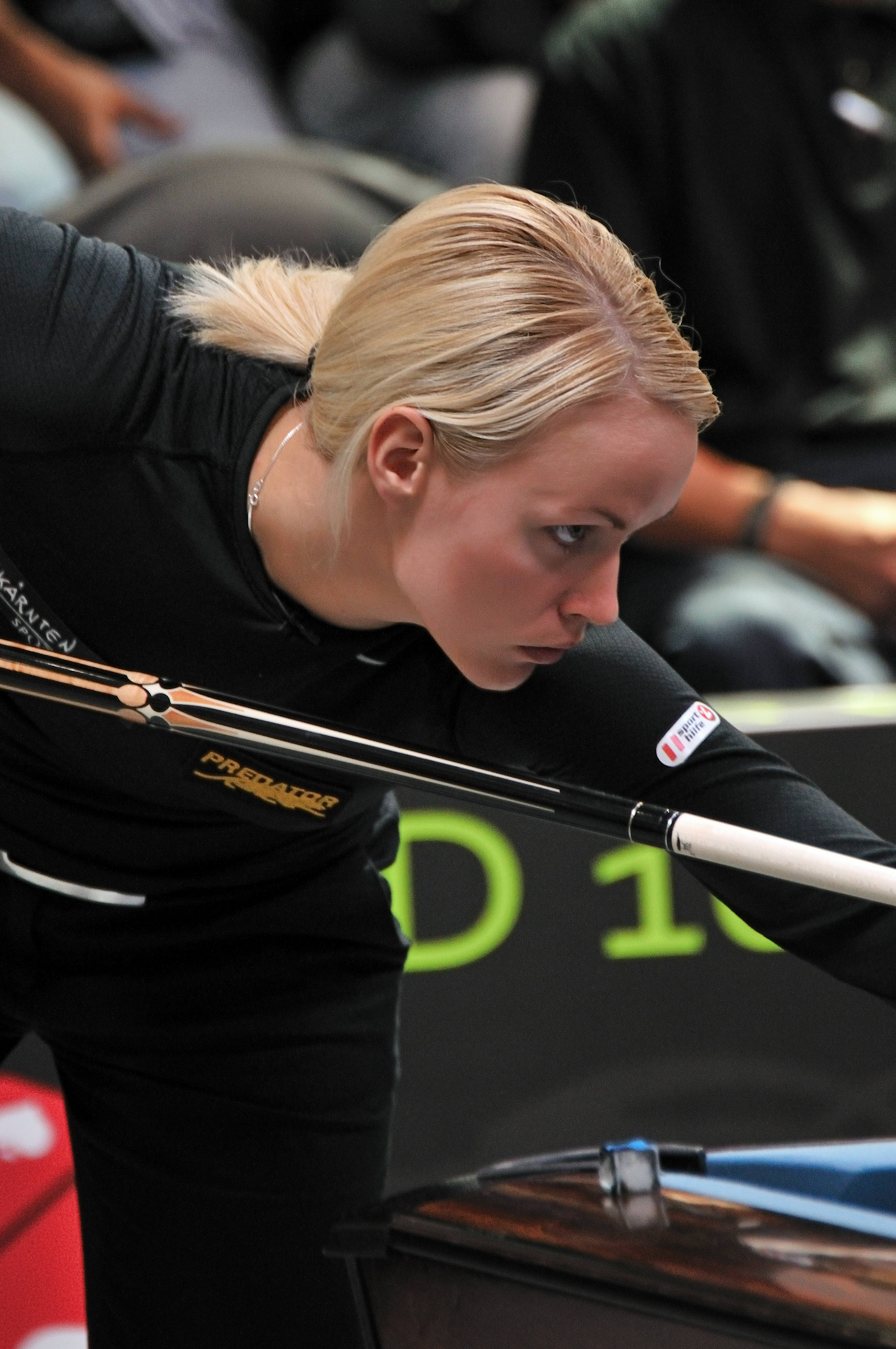 Jasmin Ouschan lines up a shot